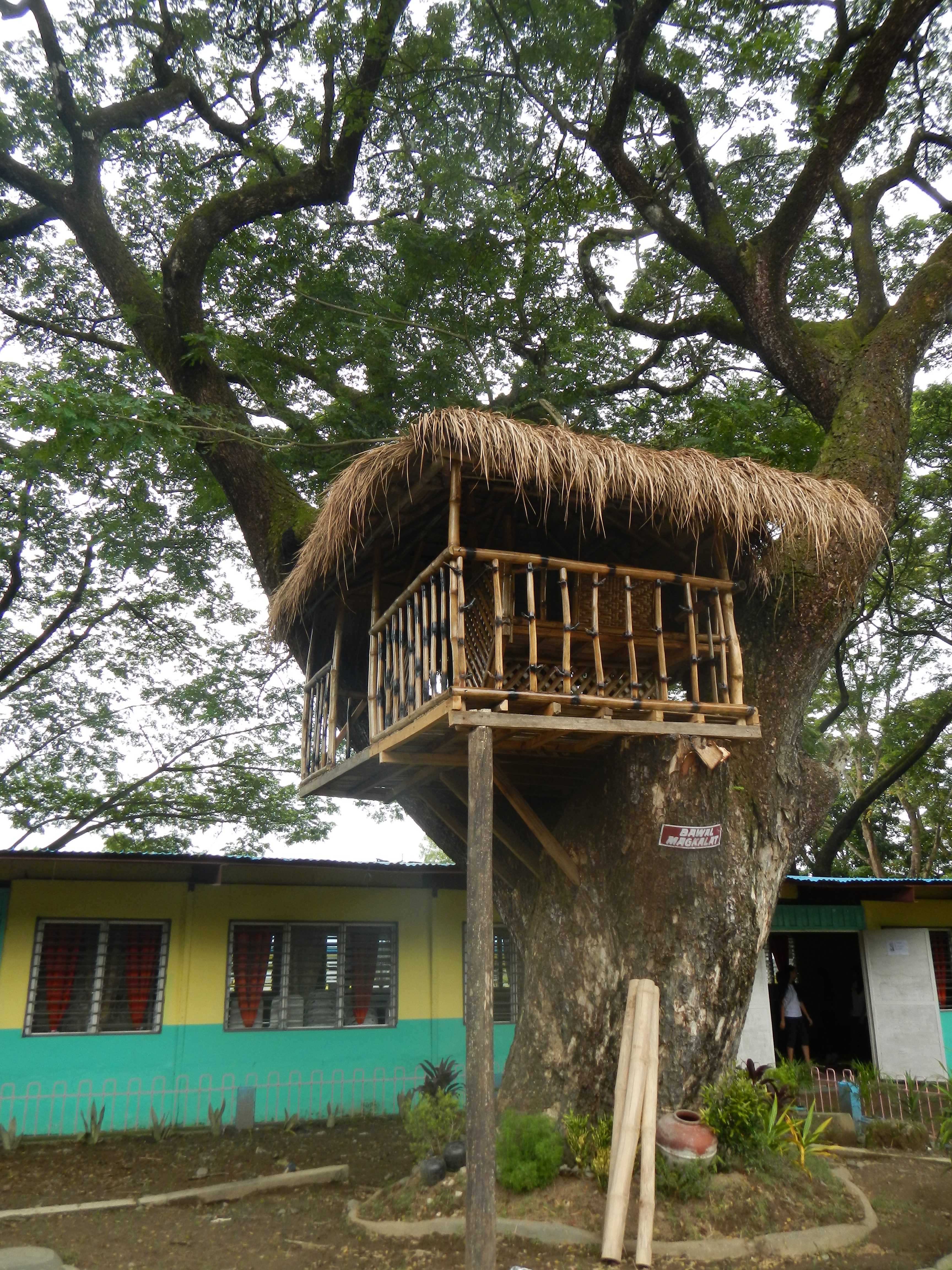 Bahay Kubo (tree house), Nueva Ecija University of Science and Technology Peñaranda, Nueva Ecija [1]